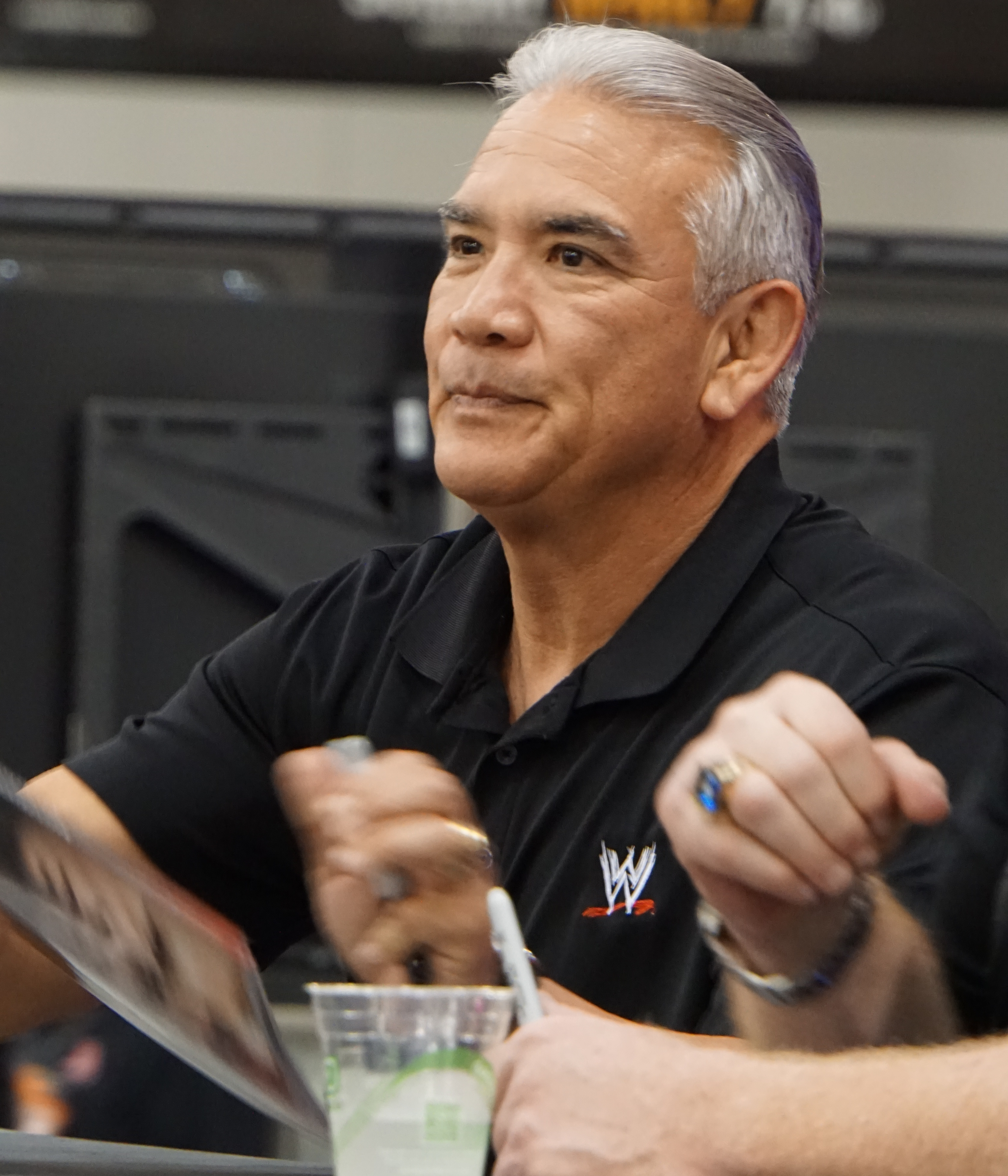 Ricky Steamboat at WrestleMania Axxess in March 2015.